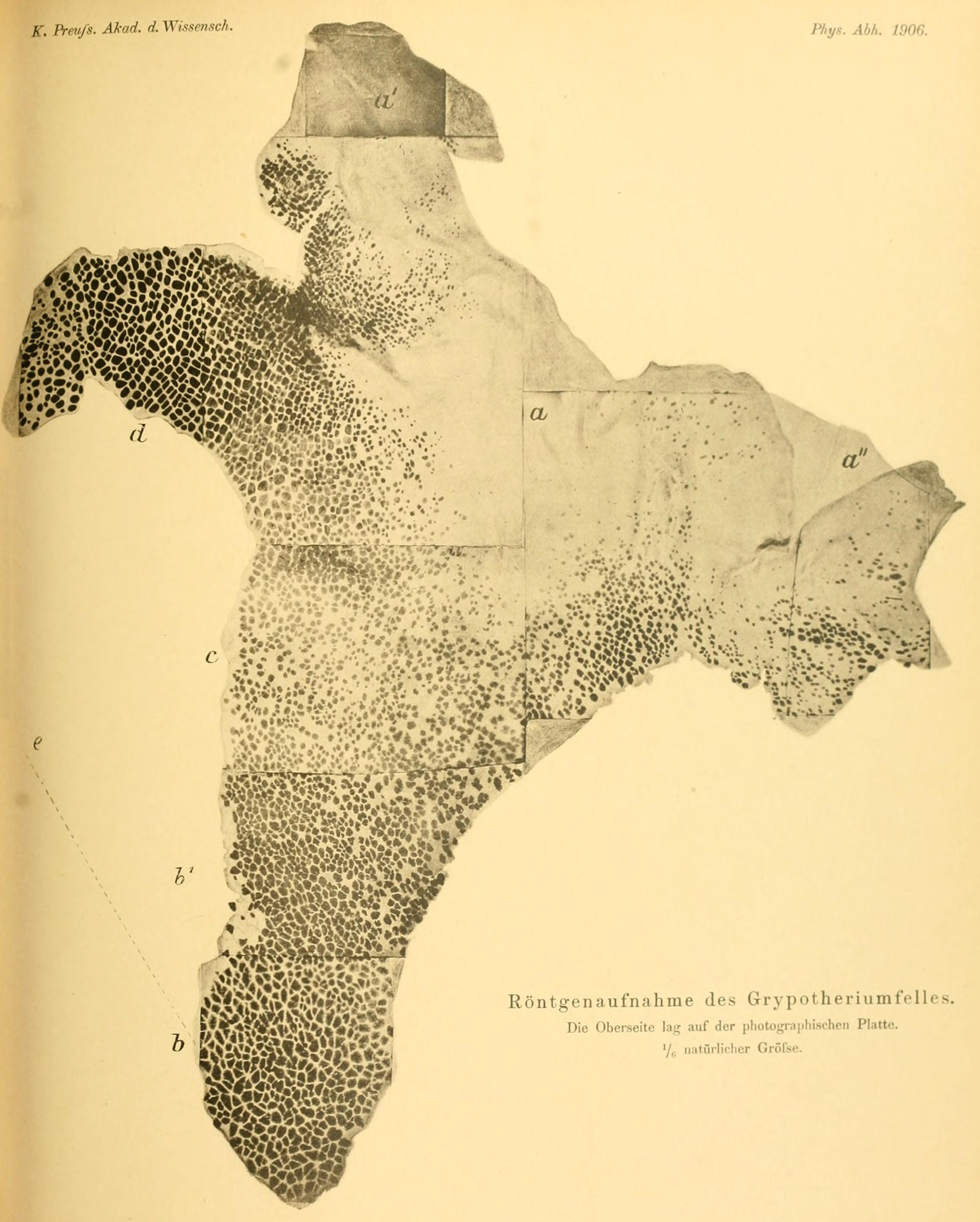 X-ray picture of a mummified piece of skin of Mylodon darwinii, discovered in Cueva del Milodón, Chile and showing the distribution of osteoderms